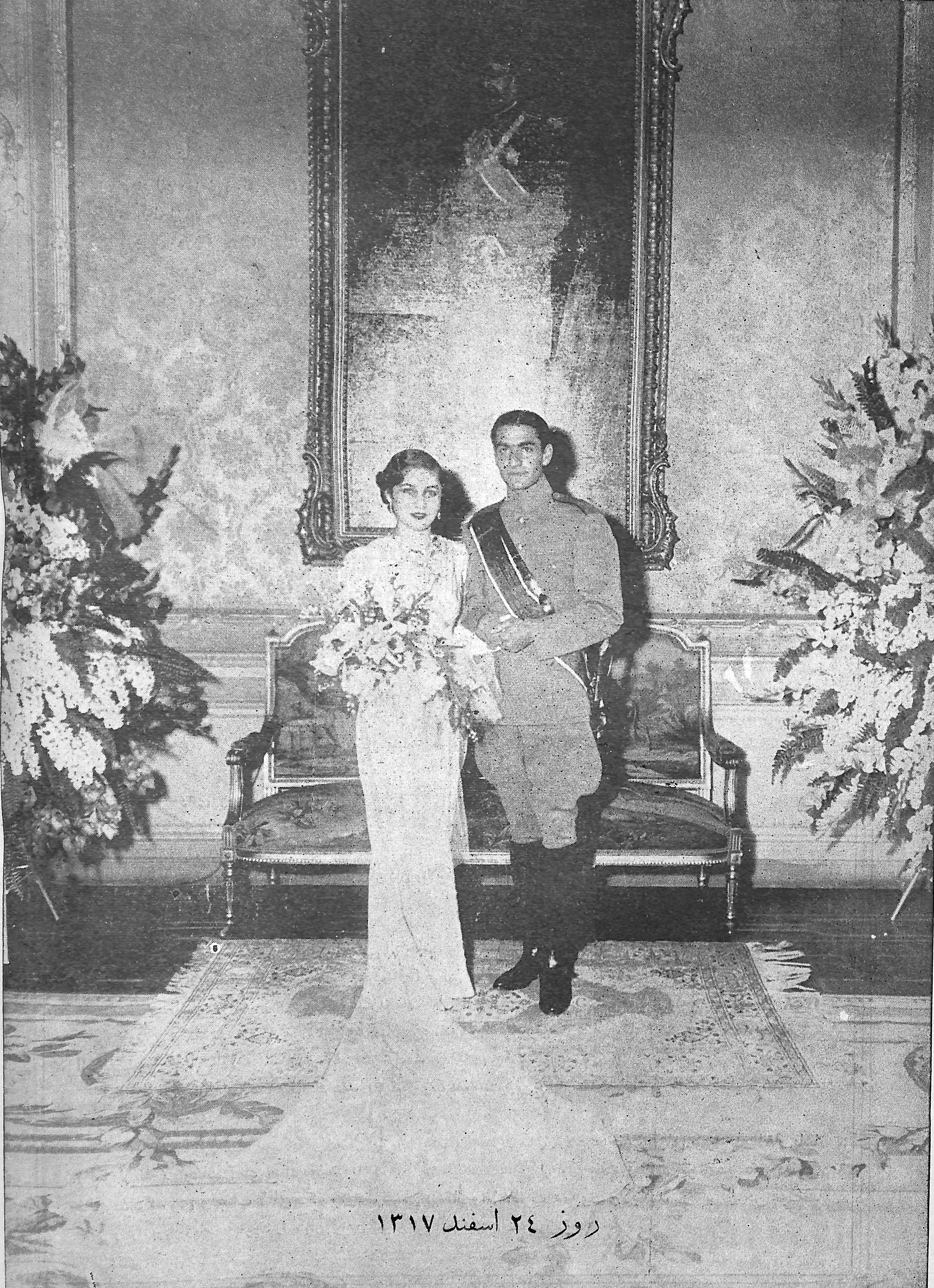 Wedding of then- Crown Prince Mohammad Reza Pahlavi with Fawzia of Egypt.. 1939.